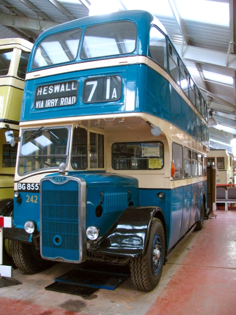 Wirral Transport Museum, Taylor Street, Birkenhead